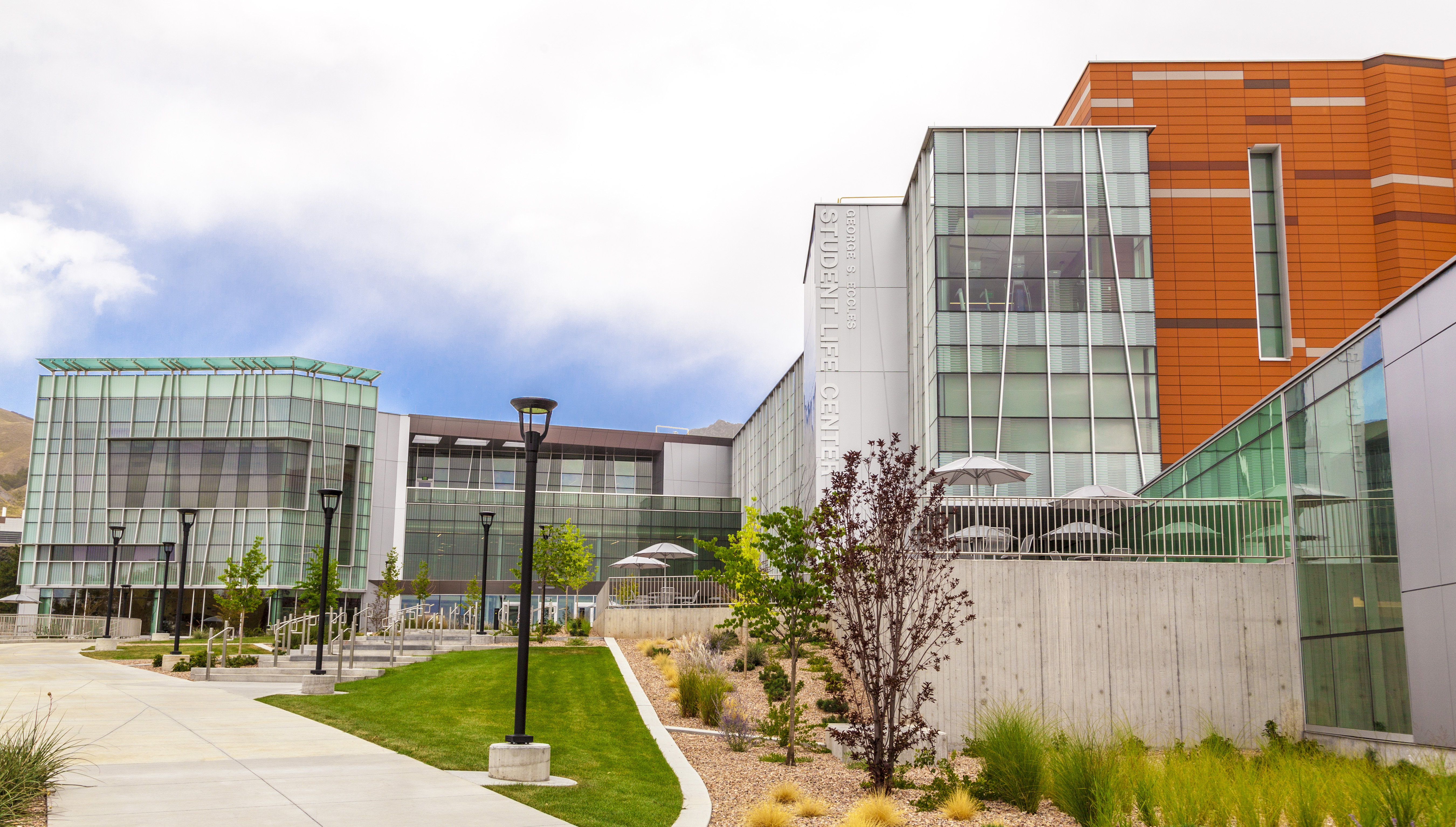 George S. Eccles Student Life Center at the University of Utah in Salt Lake City, Utah, USA.